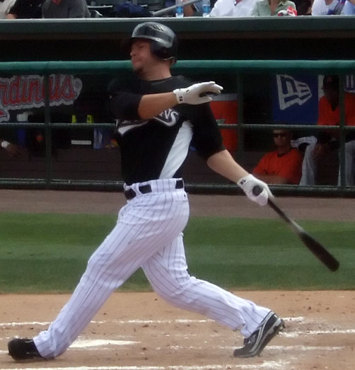 Batting at a spring training game vs the Baltimore Orioles on 2/29/08. I took this picture. 23:47, 29 February 2008 . . Rabbethan . . 502×523 (74 KB)